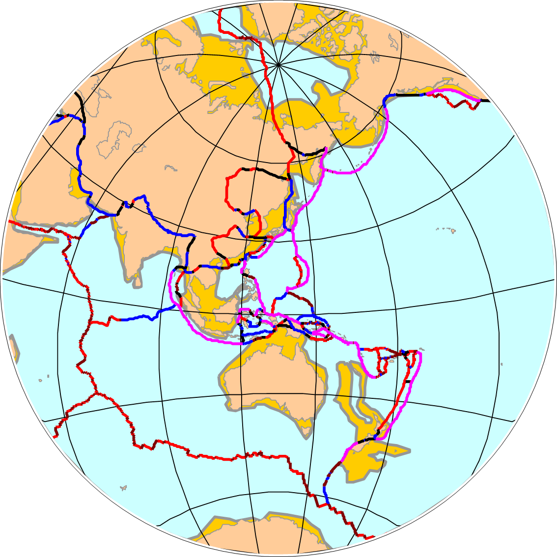 Philippine tectonic plate. Azimuthal equidistant(?) projection.